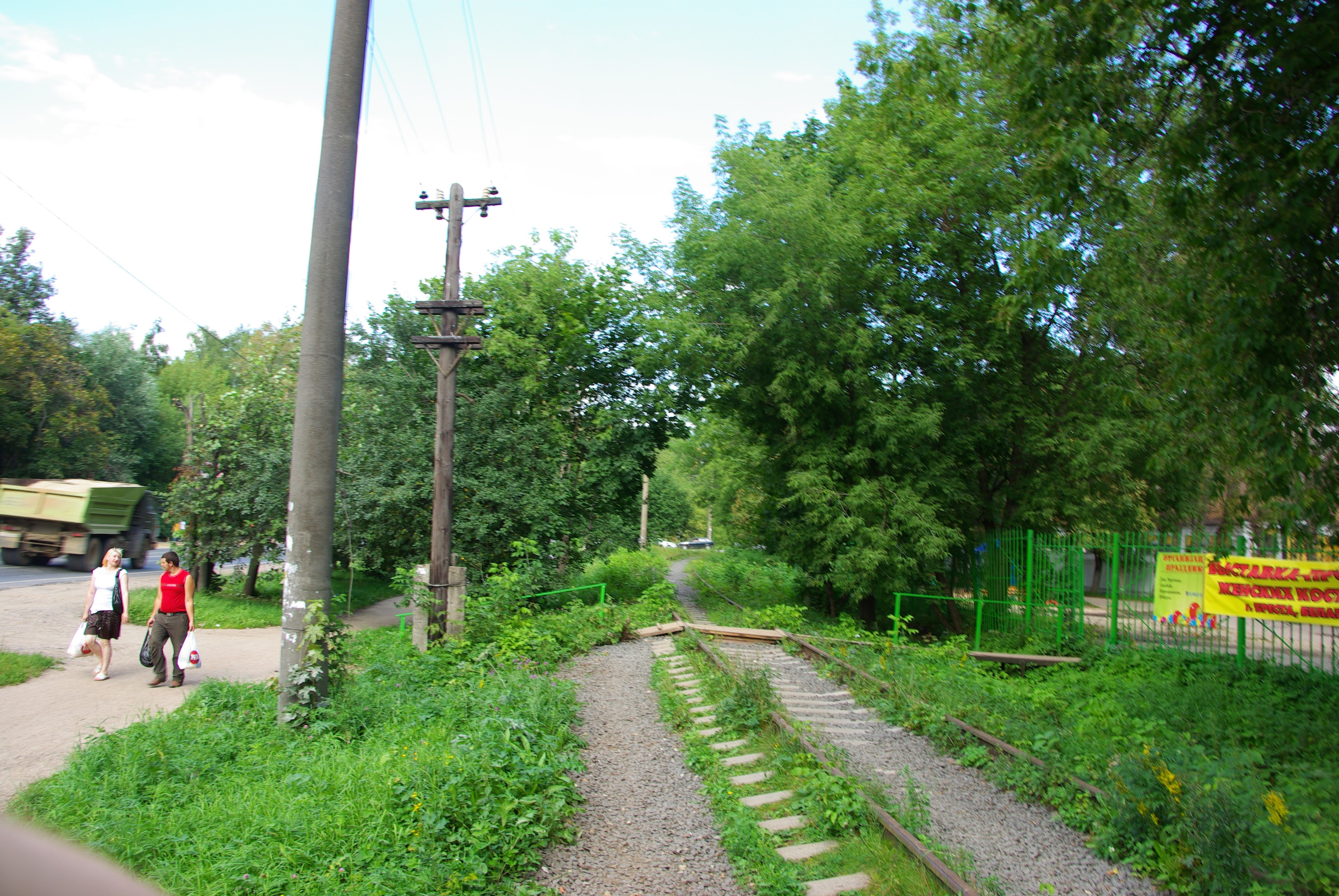 Nakhabino - Pavlovskaya sloboda railway line